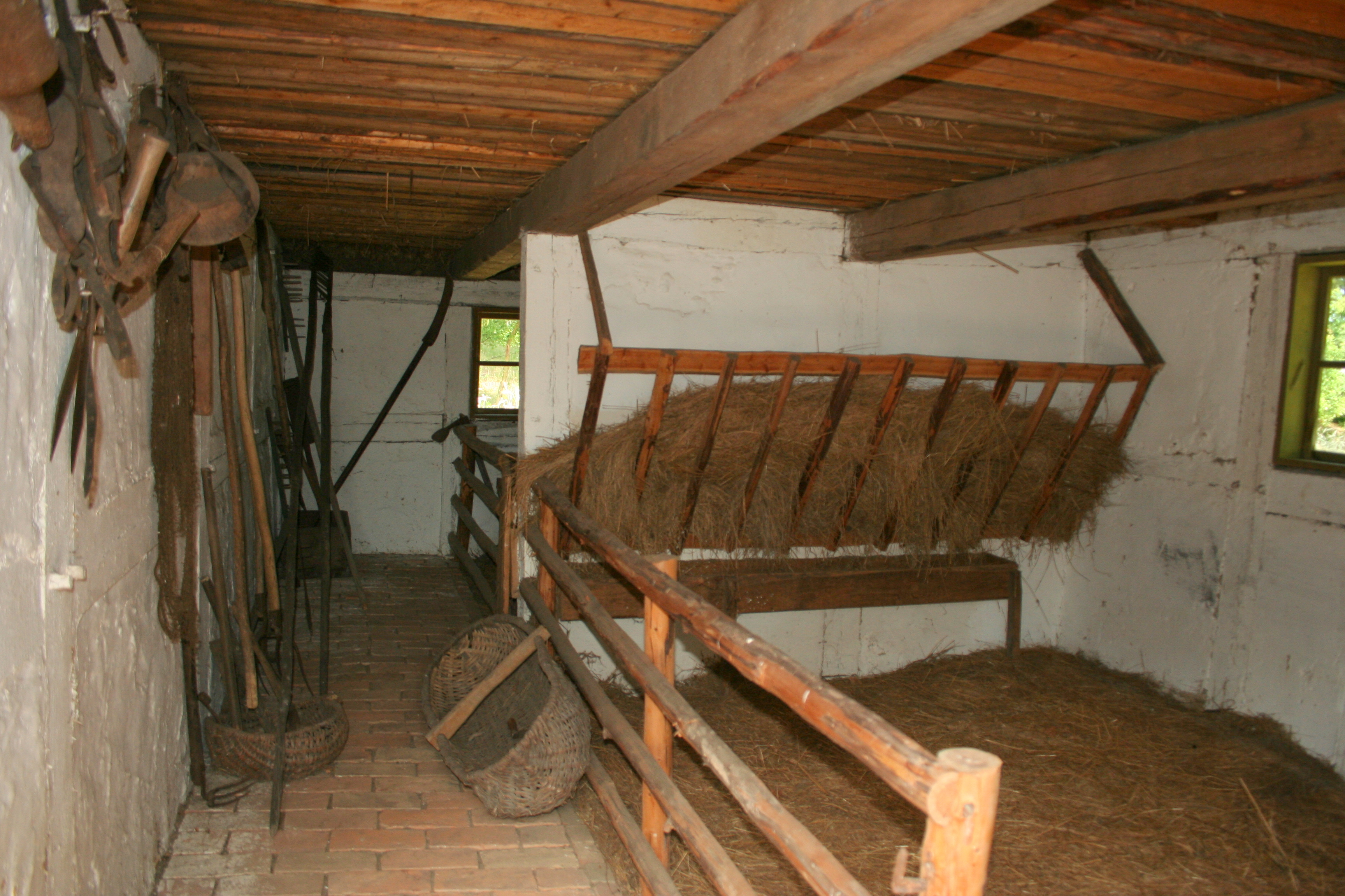 Skansen in Kluki.